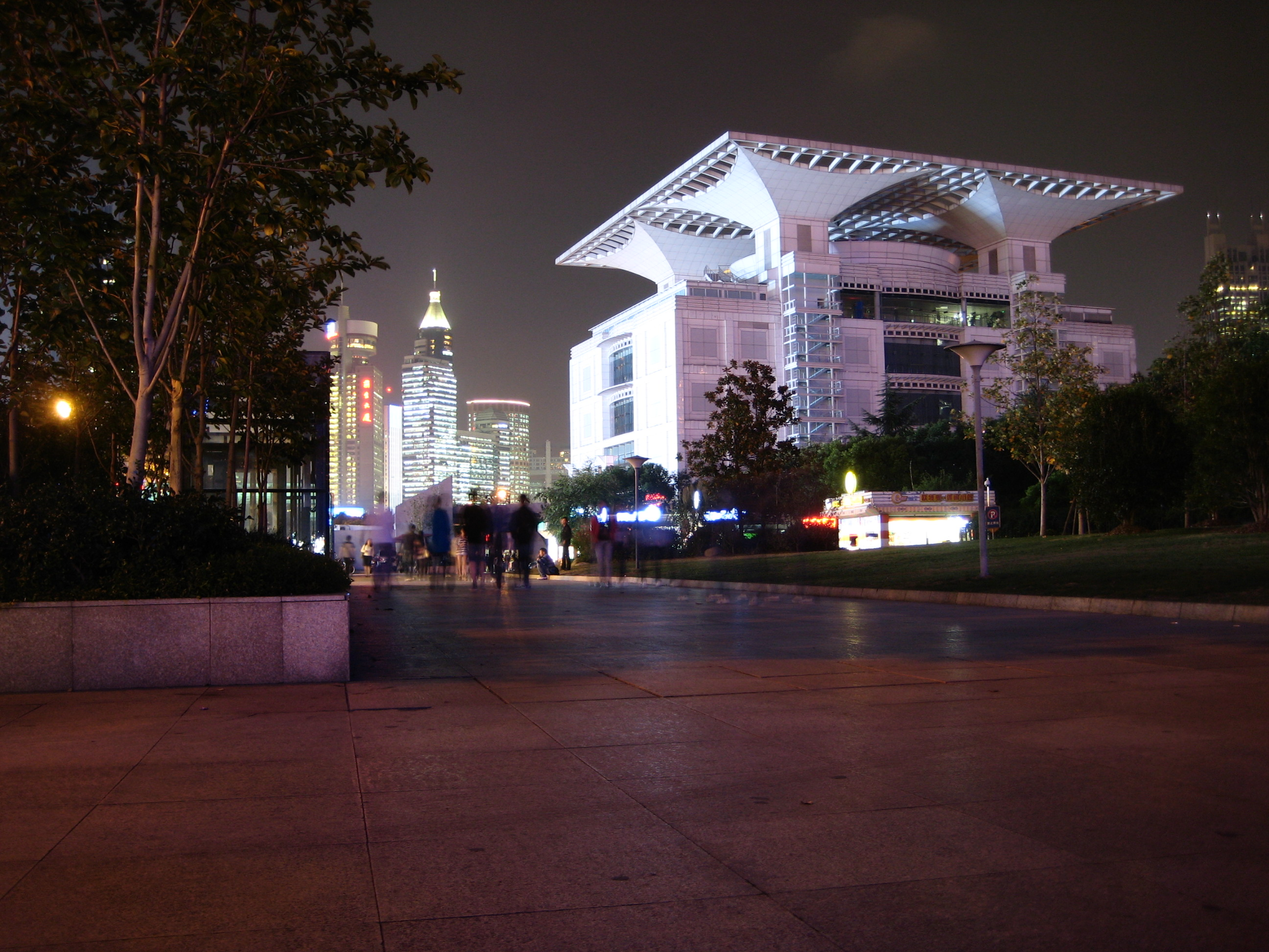 Shanghai Urban Planning Exhibition Center at night